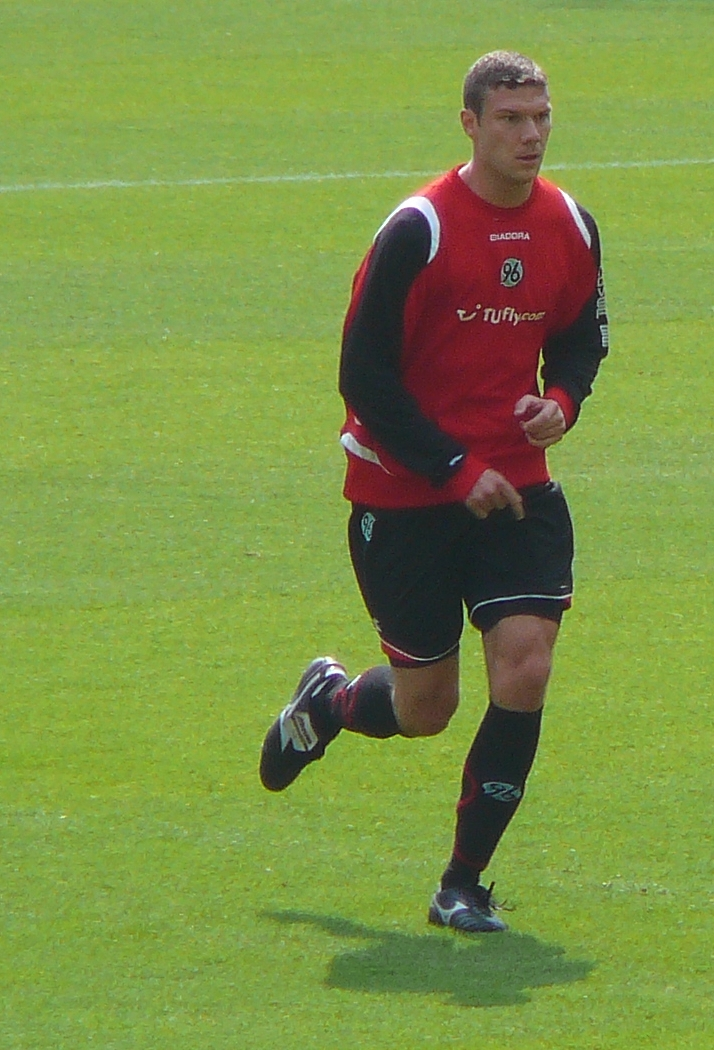 Vinicius Bergantin